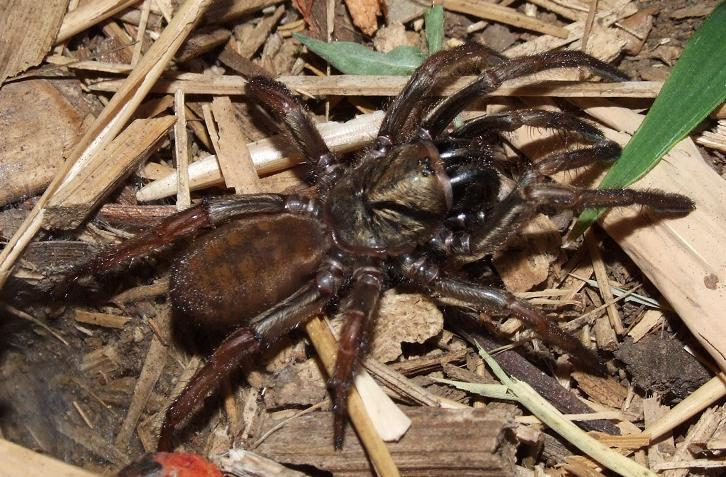 Sydney brown trapdoor spider (Misgolas rapax) in Kurrajong, New South Wales.